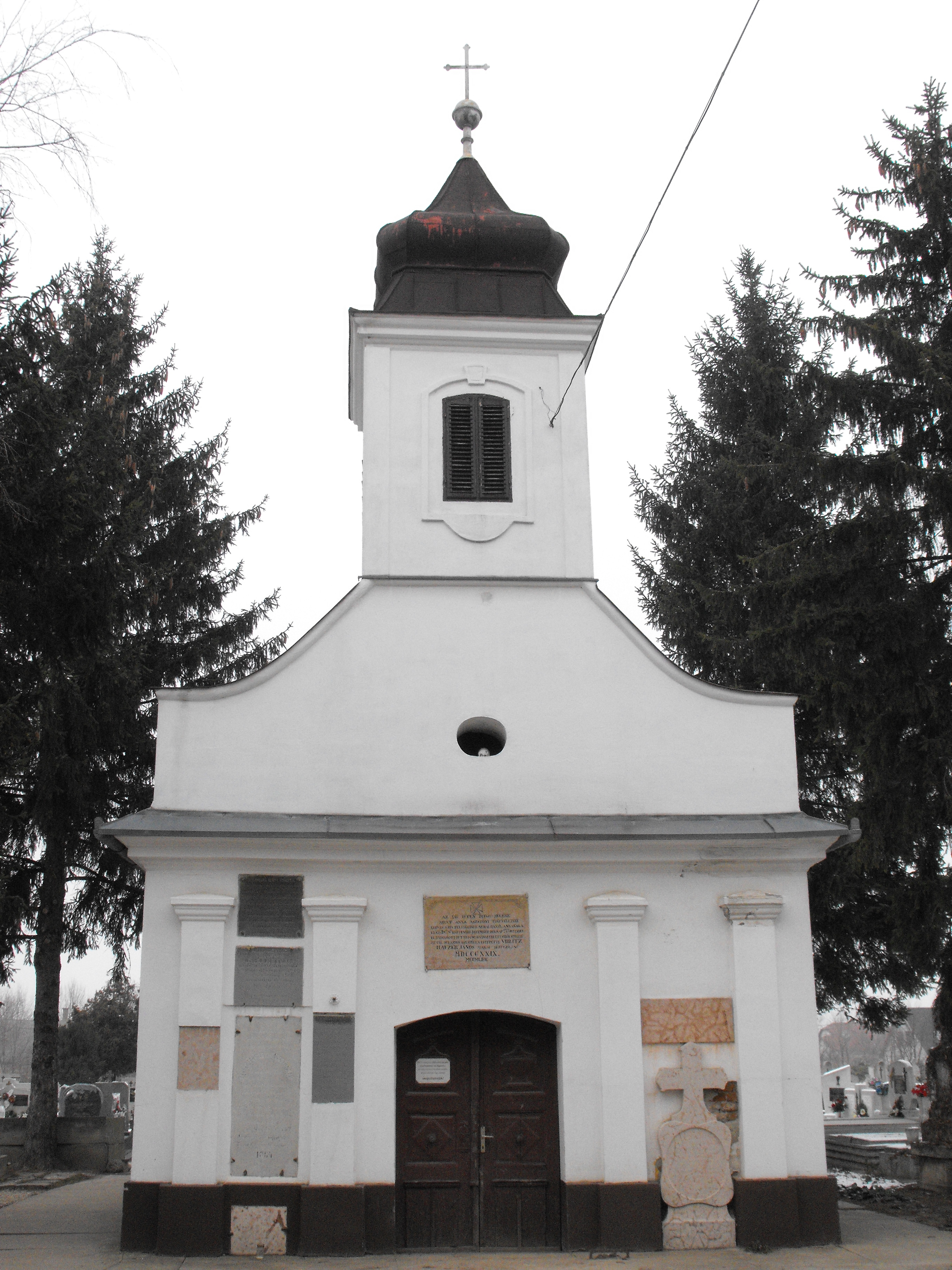 St. Anna Chapel in Makó, Hungary.